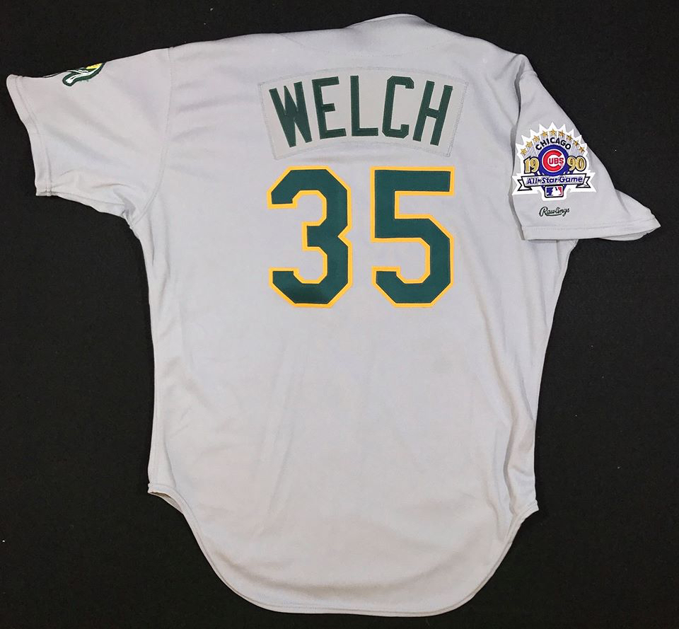 1990 Oakland Athletics #35 Bob Welch All-Star Game road jersey lettered and photographed by William F. Henderson who may be contacted at his website thedream.shop